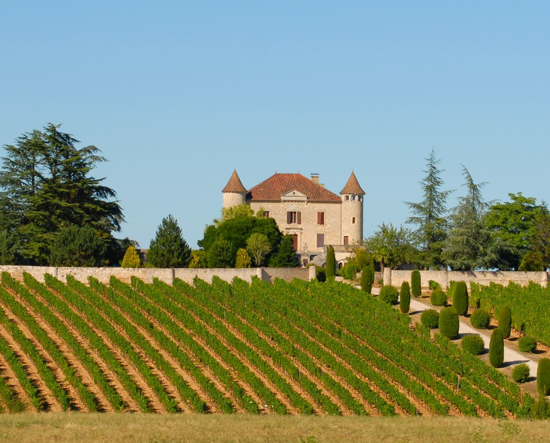 Chateau de Chambert, Malbec vineyard, Cahors - France